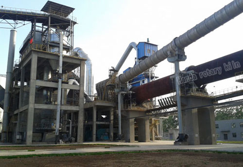 the core equipment for cement plant-rotary kiln